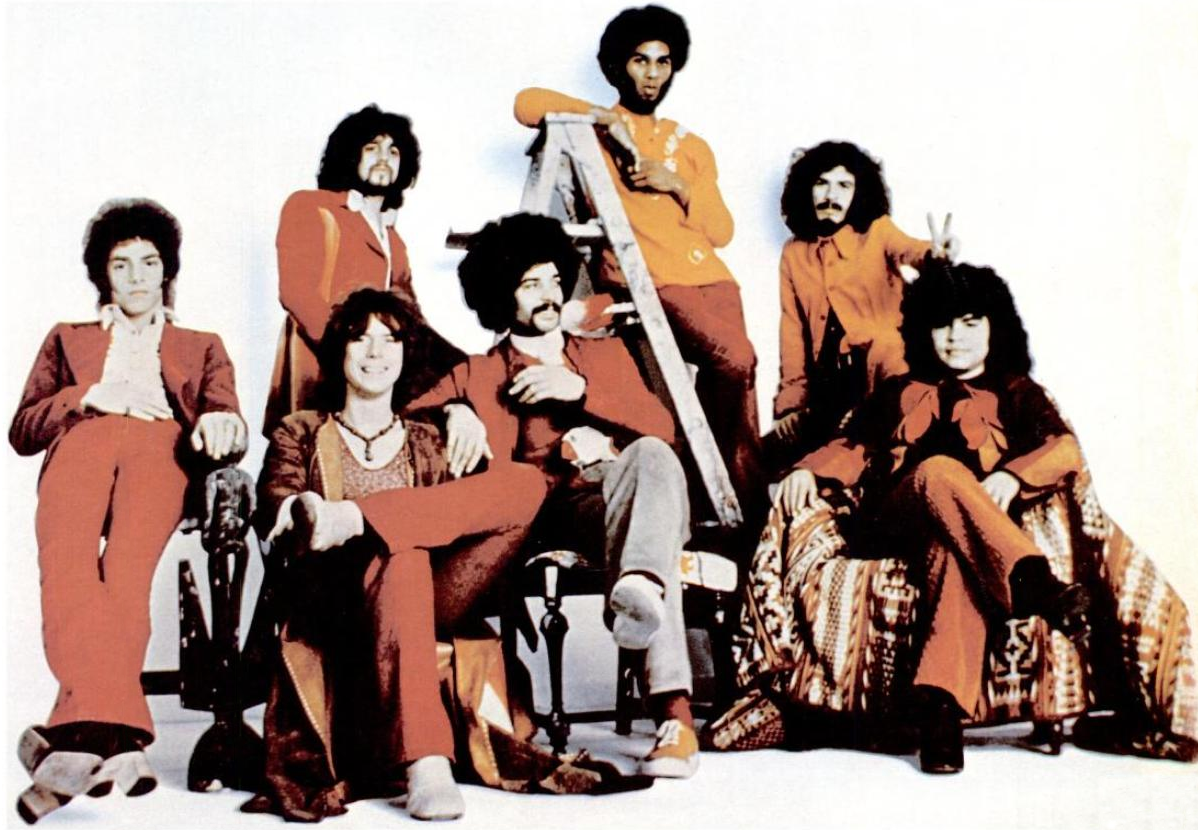 Trade ad for Santana's album Santana III.To better adapt it to his respective Wikipedia article, the ad was cropped and cleaned in a graphics editing program. The original can be viewed at the source below.